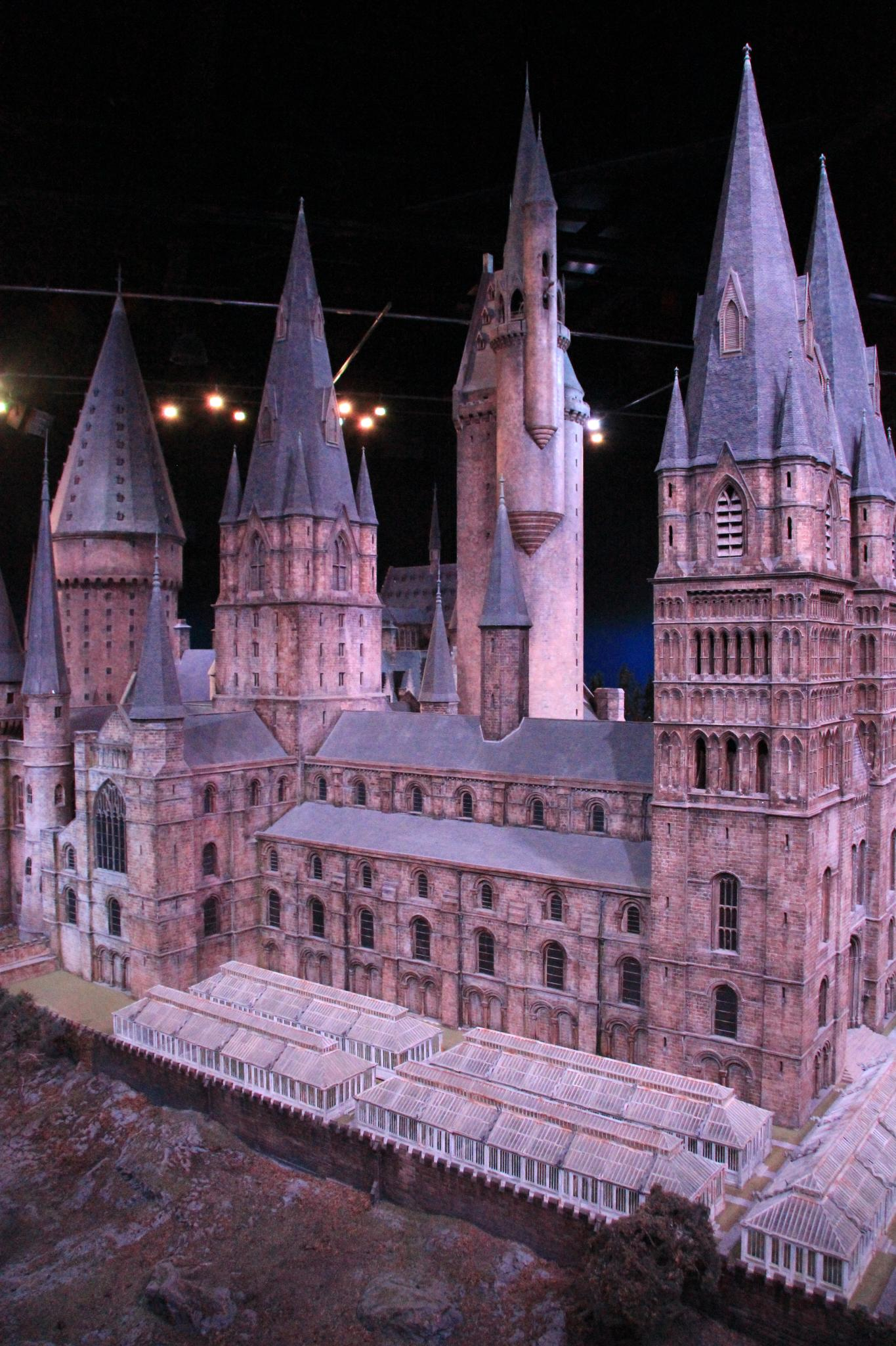 Warner Bros. Studio Tour London: The Making of Harry Potter.